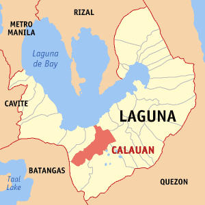 Locator map of Calauan in Laguna, Philippines.